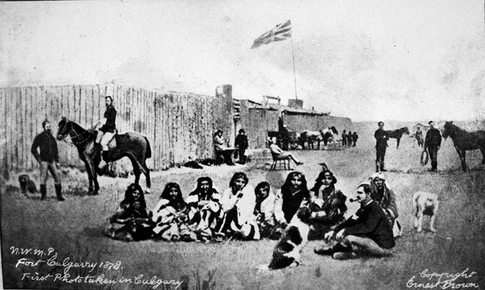 North-West Mounted Police, Fort Calgary. Library and Archives Canada / C-008200, listing it as copyright expired.